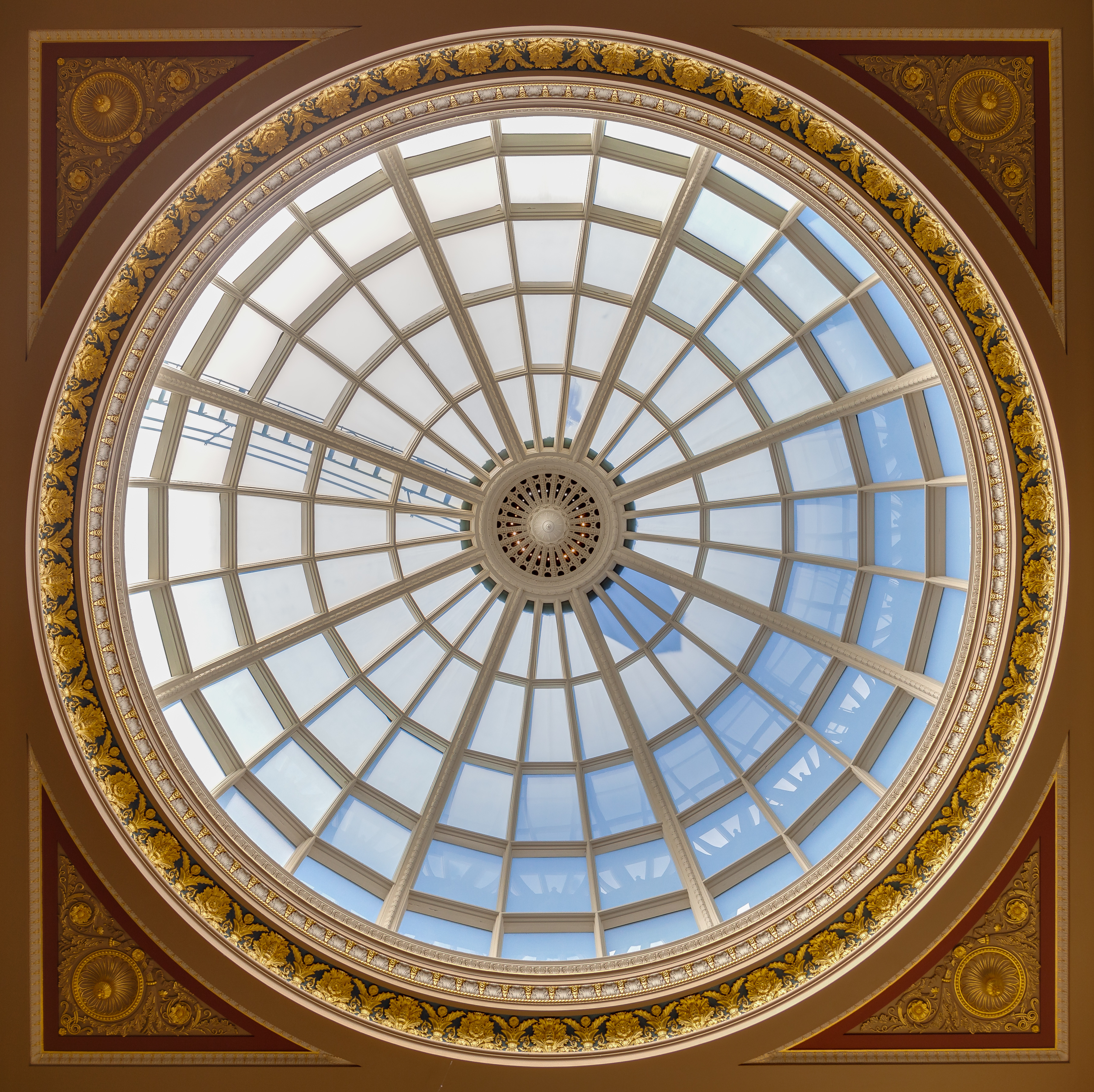 Dome of the entrance hall (aka staircase hall), National Gallery, London (England). The National Gallery was founded in 1824 and has a collection of over 2,300 paintings from the mid-13th century to 1900. The present building in London's Trafalgar Square is the third to house the National Gallery, and was designed by William Wilkins from 1832–38. The Staircase Hall was designed by Sir John Taylor in 1884–7.